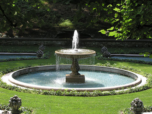 Photo of a fountain in the Italian Garden section of Longwood Gardens in Kennett Square, Pennsylvania. Photo taken by Michael Parker. Original: Fountain